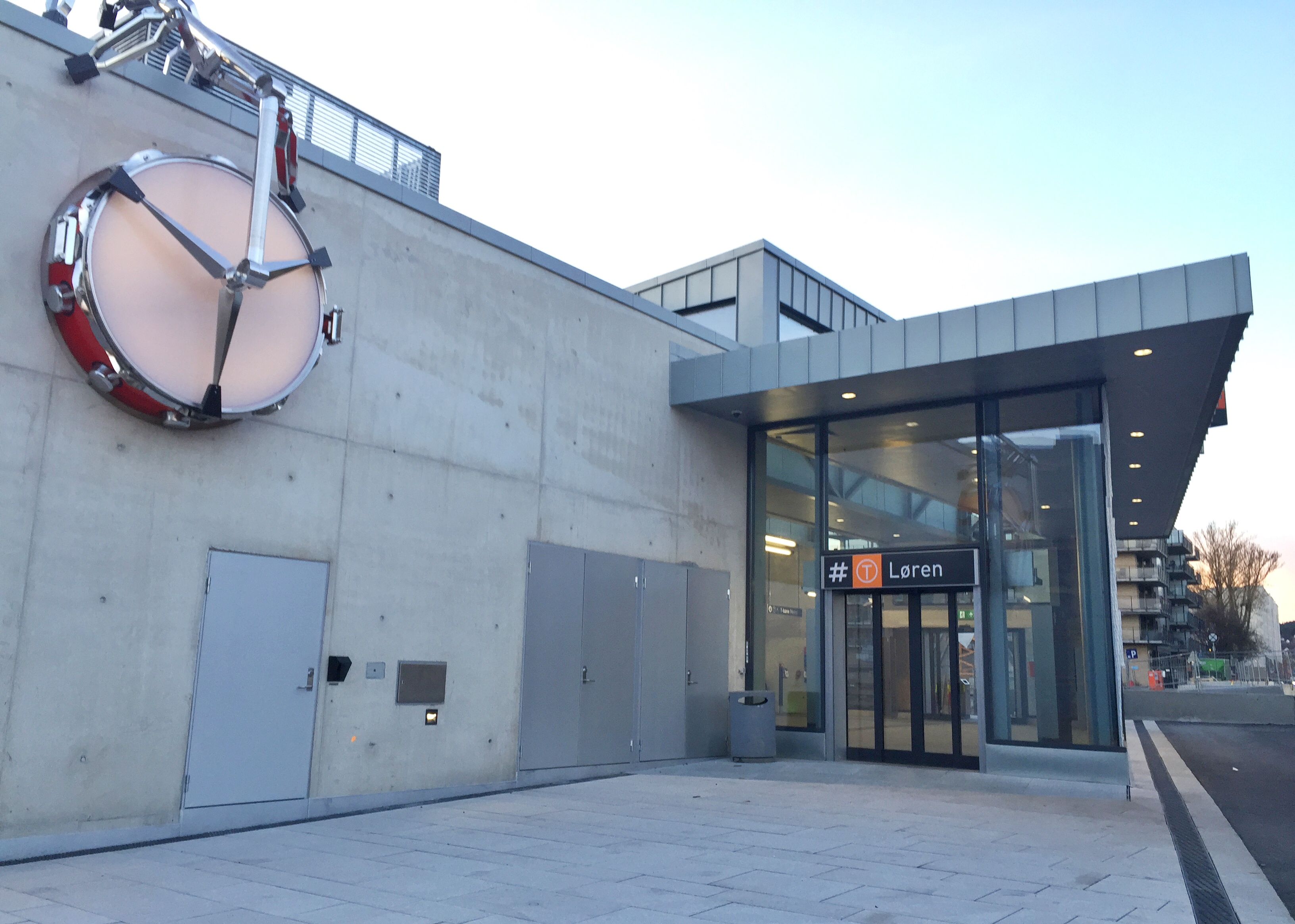 The entrance of the Løren Metro station in Oslo. The artwork «Rythm Wars -Interval» by Camille Norment to the left.